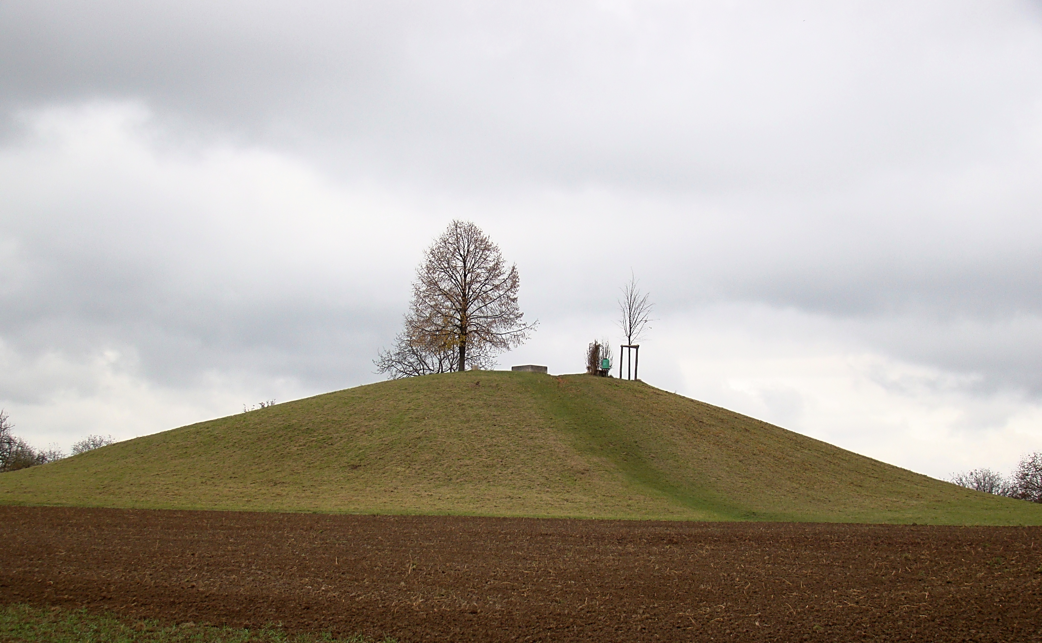 The Kleinaspergle, a Celtic grave mound near Asperg